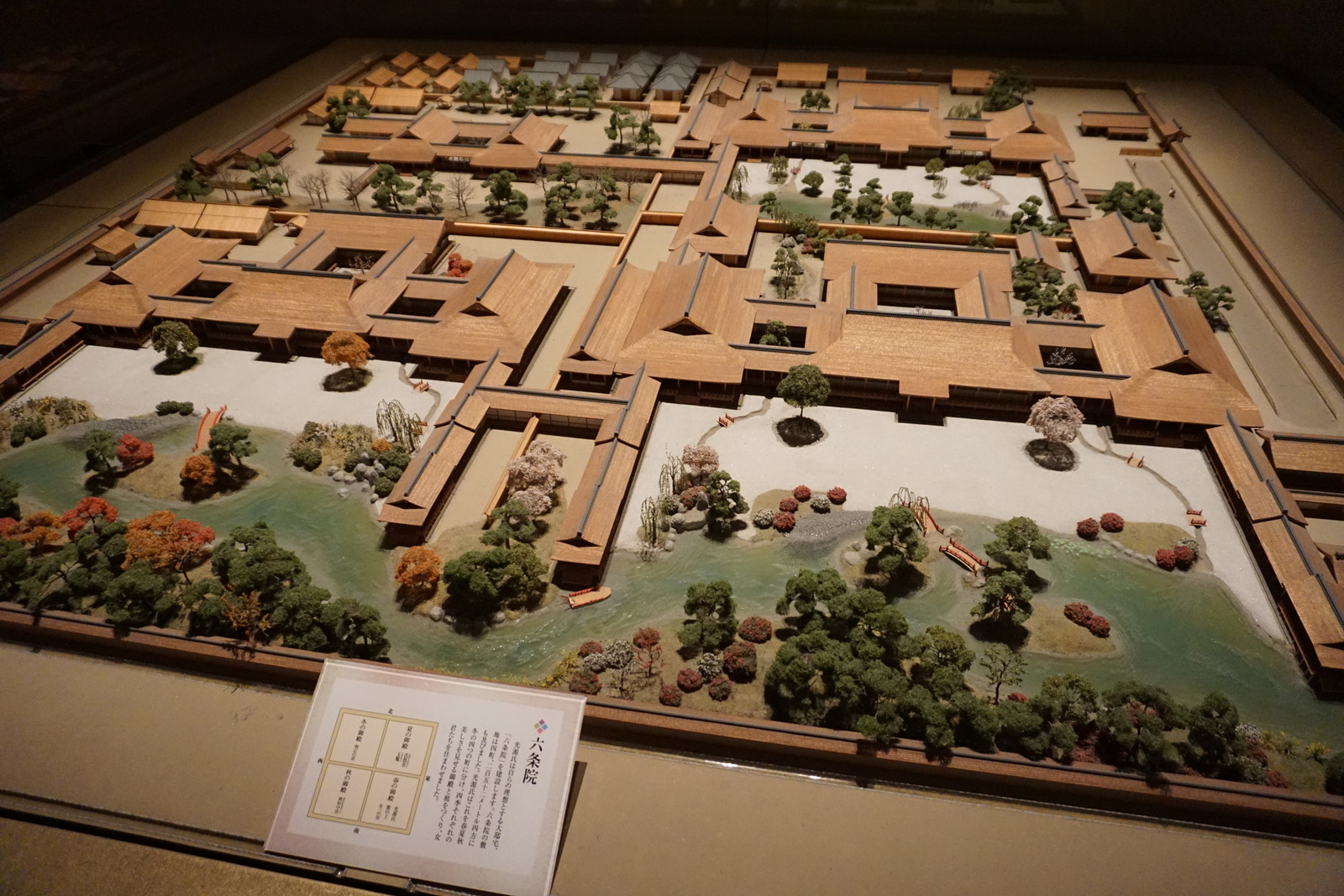 The "four-seasons" house in Tale of Genji museum